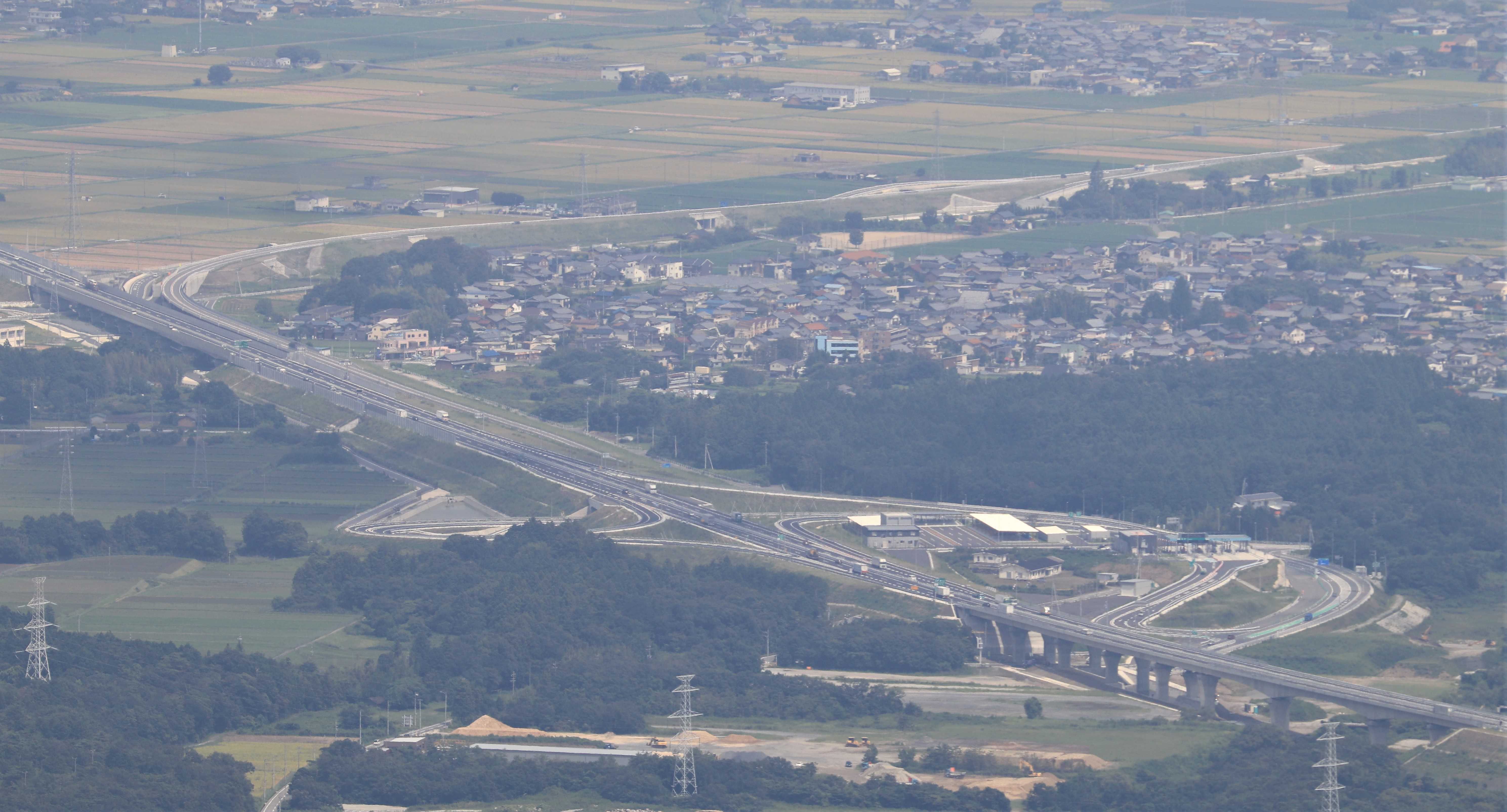 Komono Interchange and Route 477 bypass seen from Mount Gozaisho (Suzuka Mountains) in Komono, Mie Prefecture, Japan.